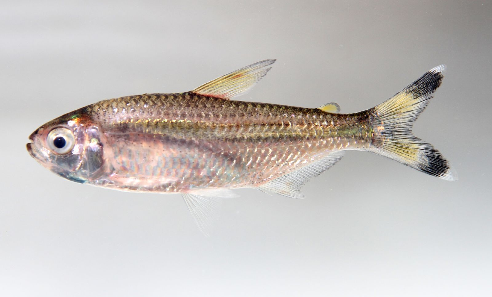 Moenkhausia cf. dichroura